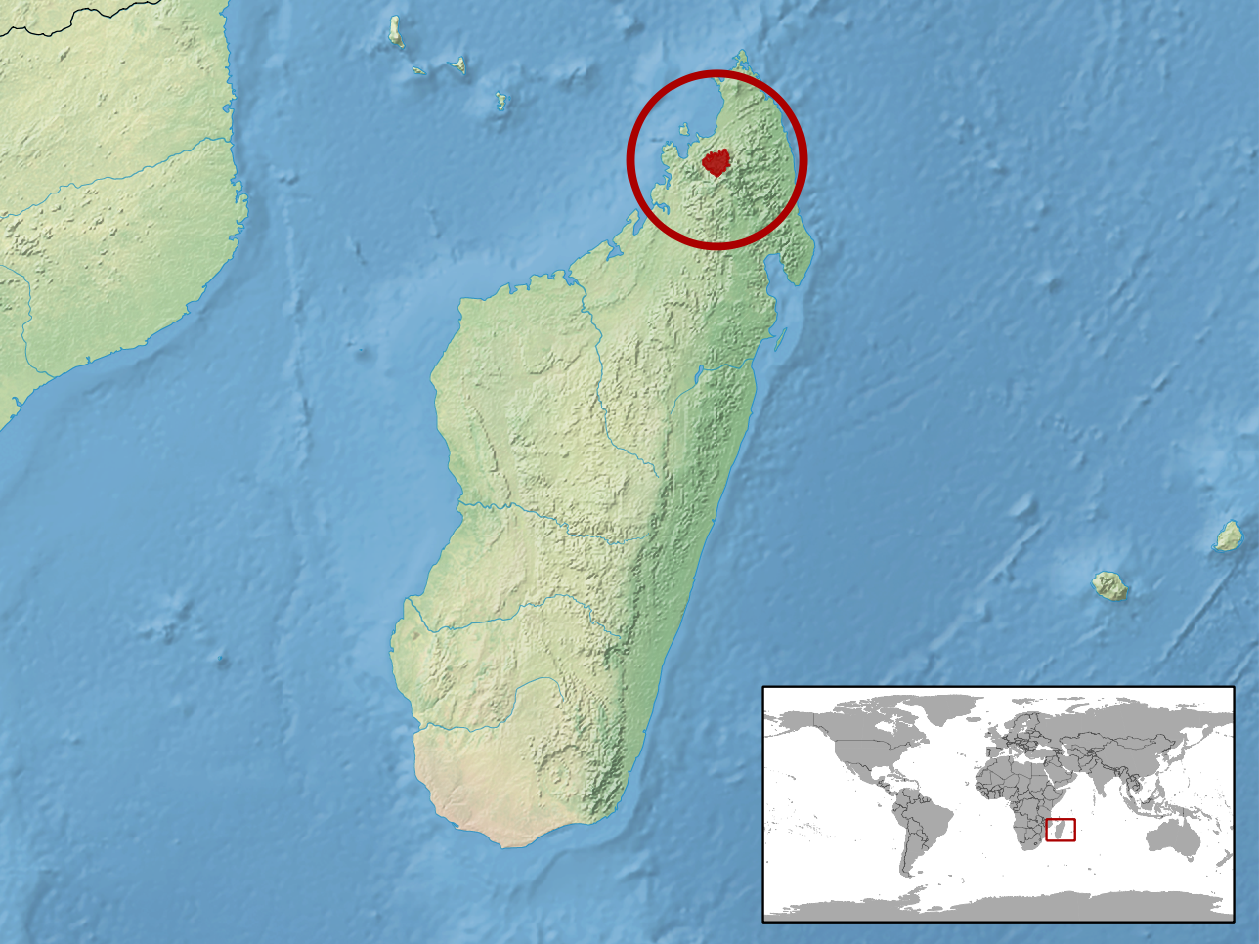 geographic distribution of Amphiglossus tsaratananensis